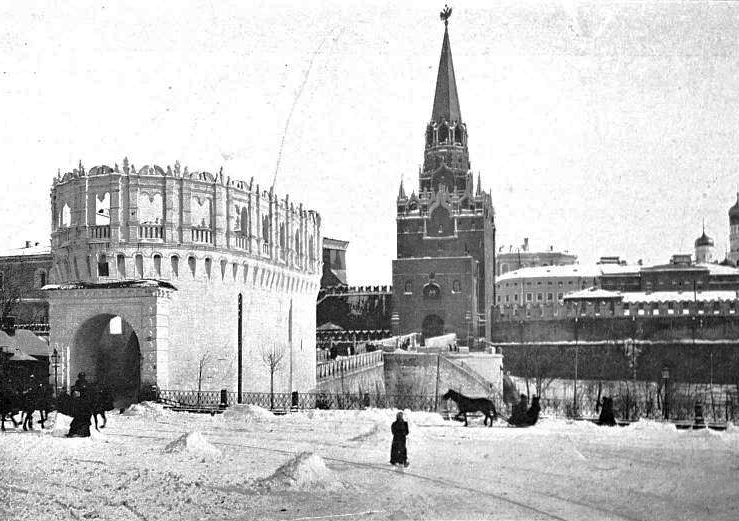 Kutafiya Tower, 1905. Moscow, Russia